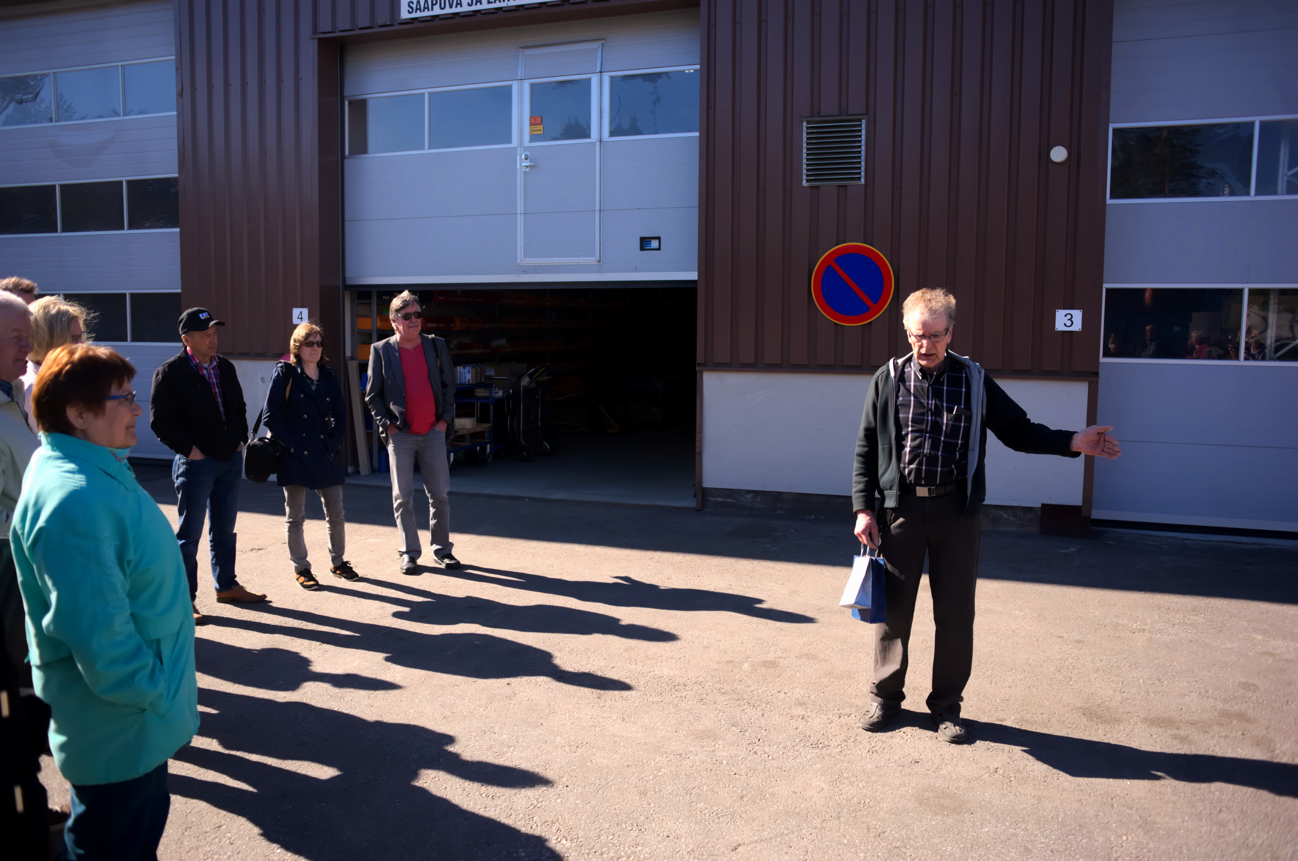 Esa Halttunen, Veekmas Oy, Kitee Finland